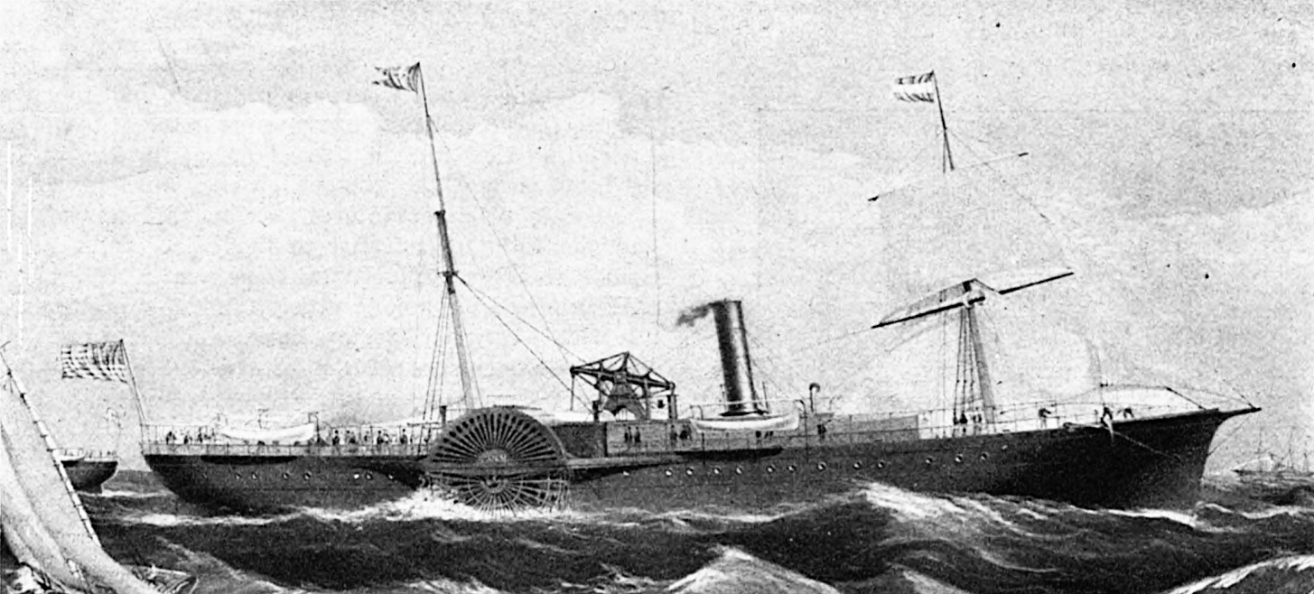 The steamship Bienville, built in Williamsburg, New York in 1860 by Lawrence & Foulks.